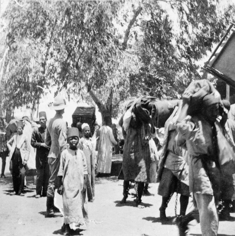 General Kitchener and the Anglo-egyptian Nile Campaign, 1898 Sudanese prisoners in chains carry the baggage of British soldiers (probably 21st Lancers) through the streets of Wadi Halfa to the Sudanese Military Railway.